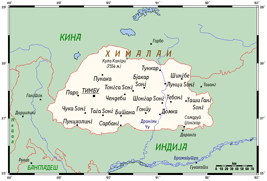 Map of Bhutan on Macedonian.